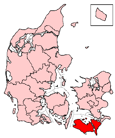 Map of Maribo County 1793-1970